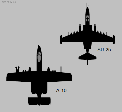 plan view silhouette A-10 and Su-25 comparison.